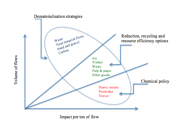 Resource consumption and mitigation strategies on environmental impact. This figure has been adapted from Spangenberg et al.[1]